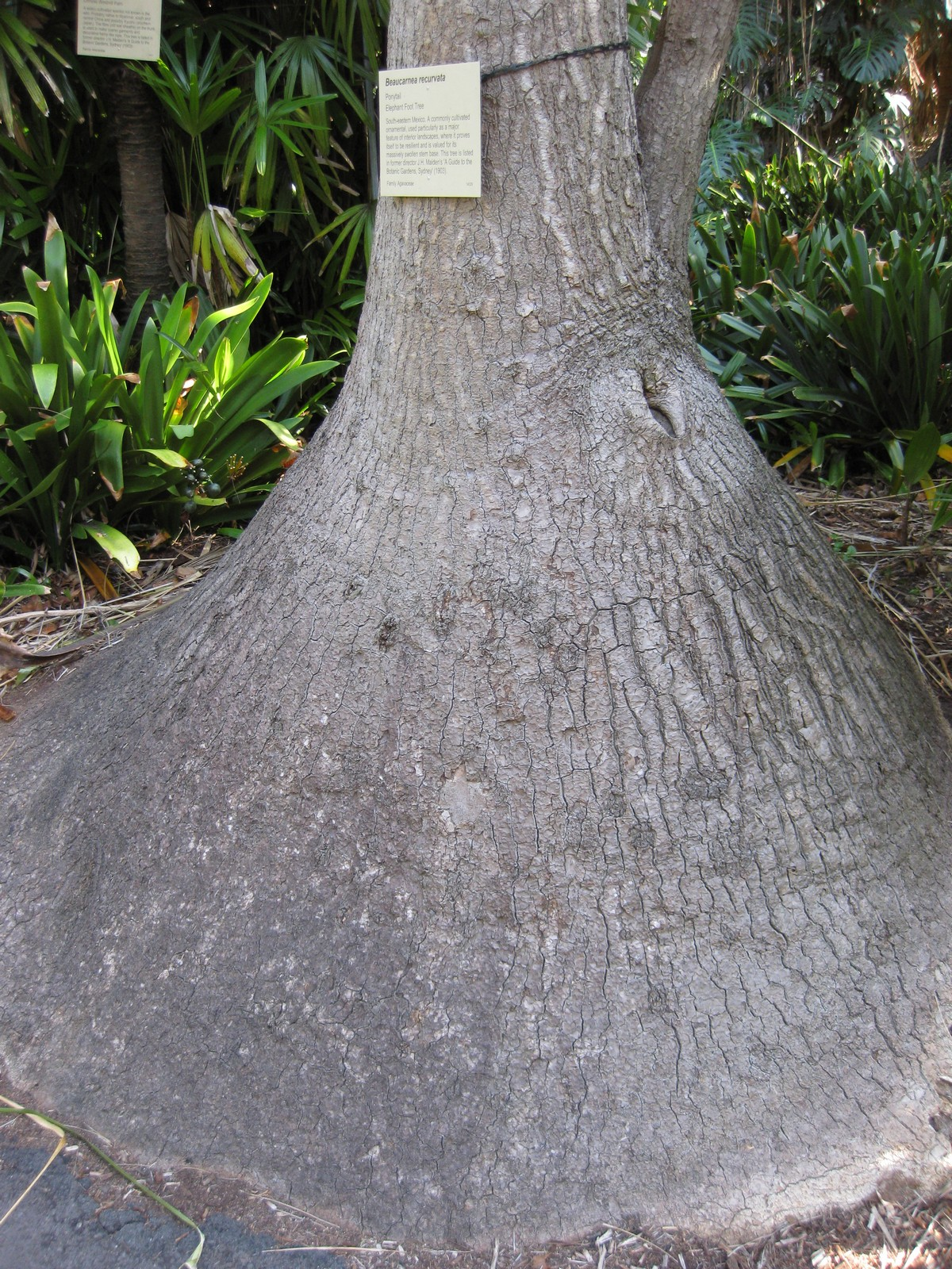 Photographed at the Royal Botanic Gardens Sydney (Australia) in December